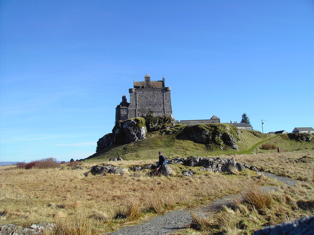 Duart Castle from the North April 2007